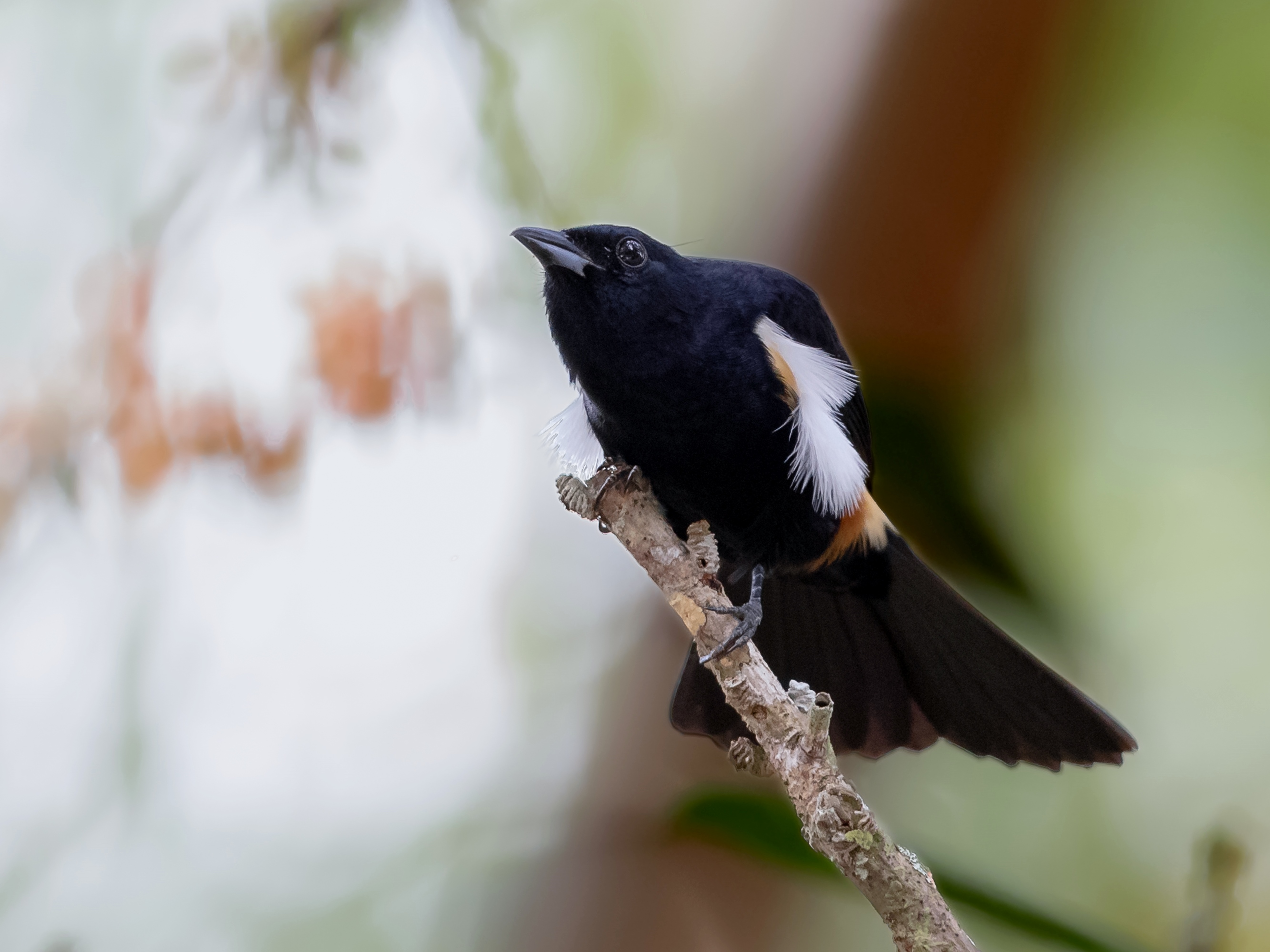 Fulvous-crested Tanager (male) ; Ramal do Pau Rosa, Manaus, Amazonas, Brazil